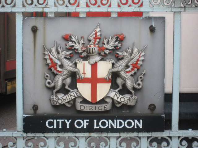 Domine Dirige Nos "Lord Direct Us". On a public toilet near Monument tube station. For information about the Coat of Arms of the City of London